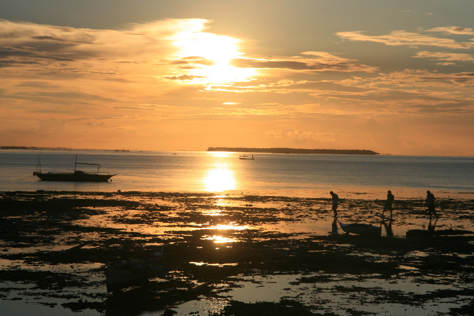 Sunset over Hilutungan, looking W from brgy Bantigue, Bantayan.